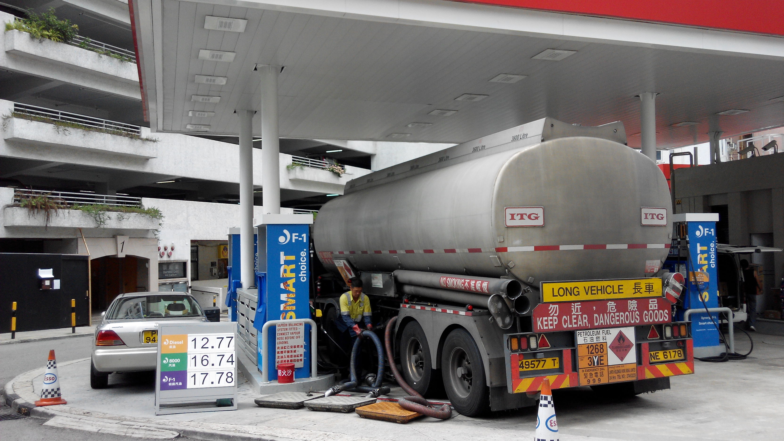 Happy Valley 跑馬地 Kwai Sing Lane 桂成里 Calex Oil Station Sep-2014